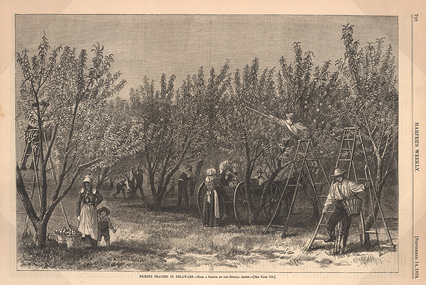 "Picking Peaches in Delaware." Harper's Weekly. (September 14, 1878). In the article accompanying this illustration, Delaware peaches are praised. "The Delaware peaches are not an exotic growth…but a strictly local production, excelled by no other fruit of the kind in the world."